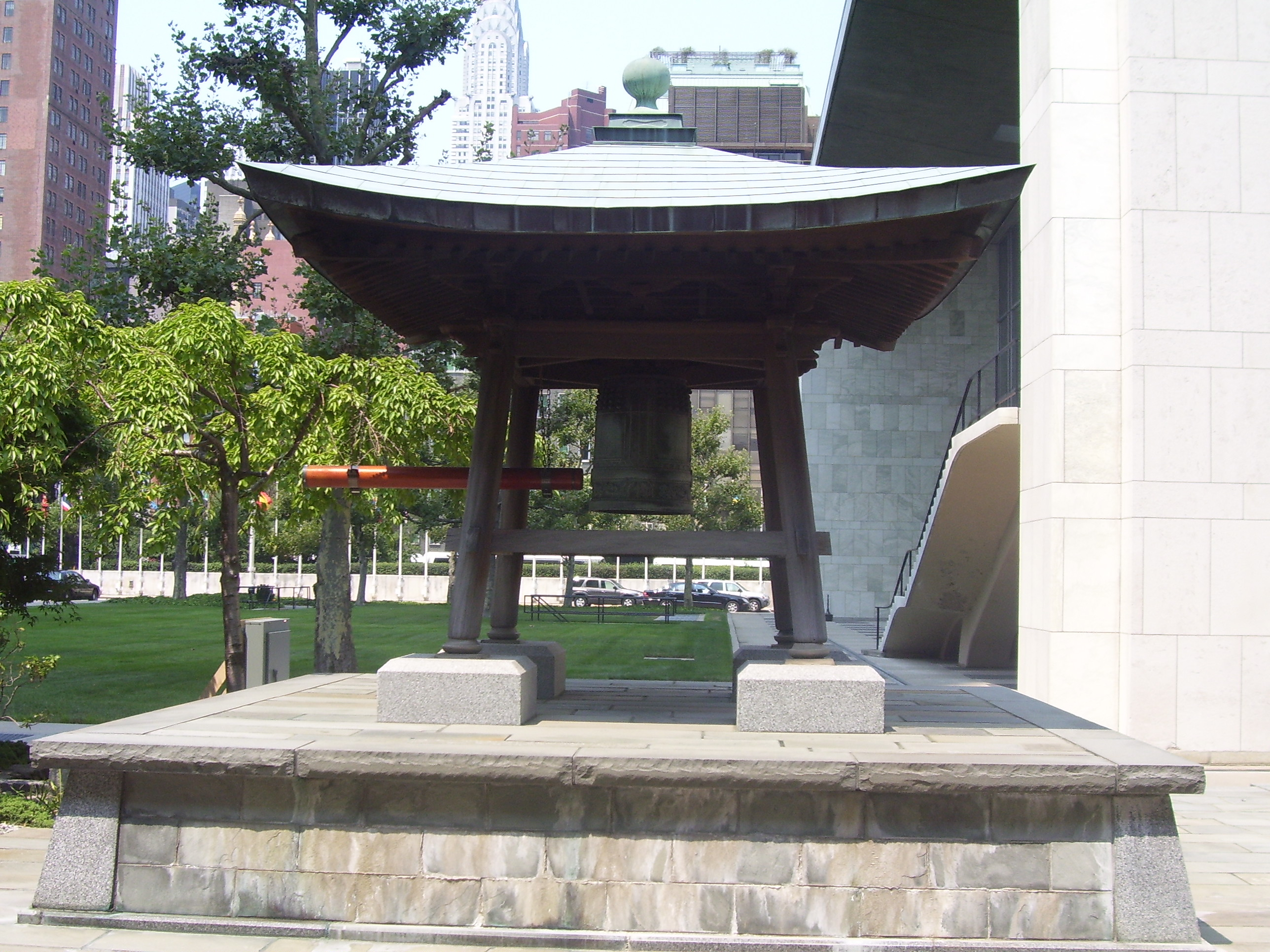 United Nations Japanese Peace Bell, United Nations Headquarters, New York City. Photograph credit: Dragonbite.